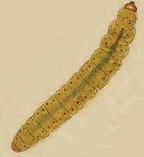 Stainton’s Natural History of the Tineina (1855–1873): Bucculatrix nigricomella externally feeding larva